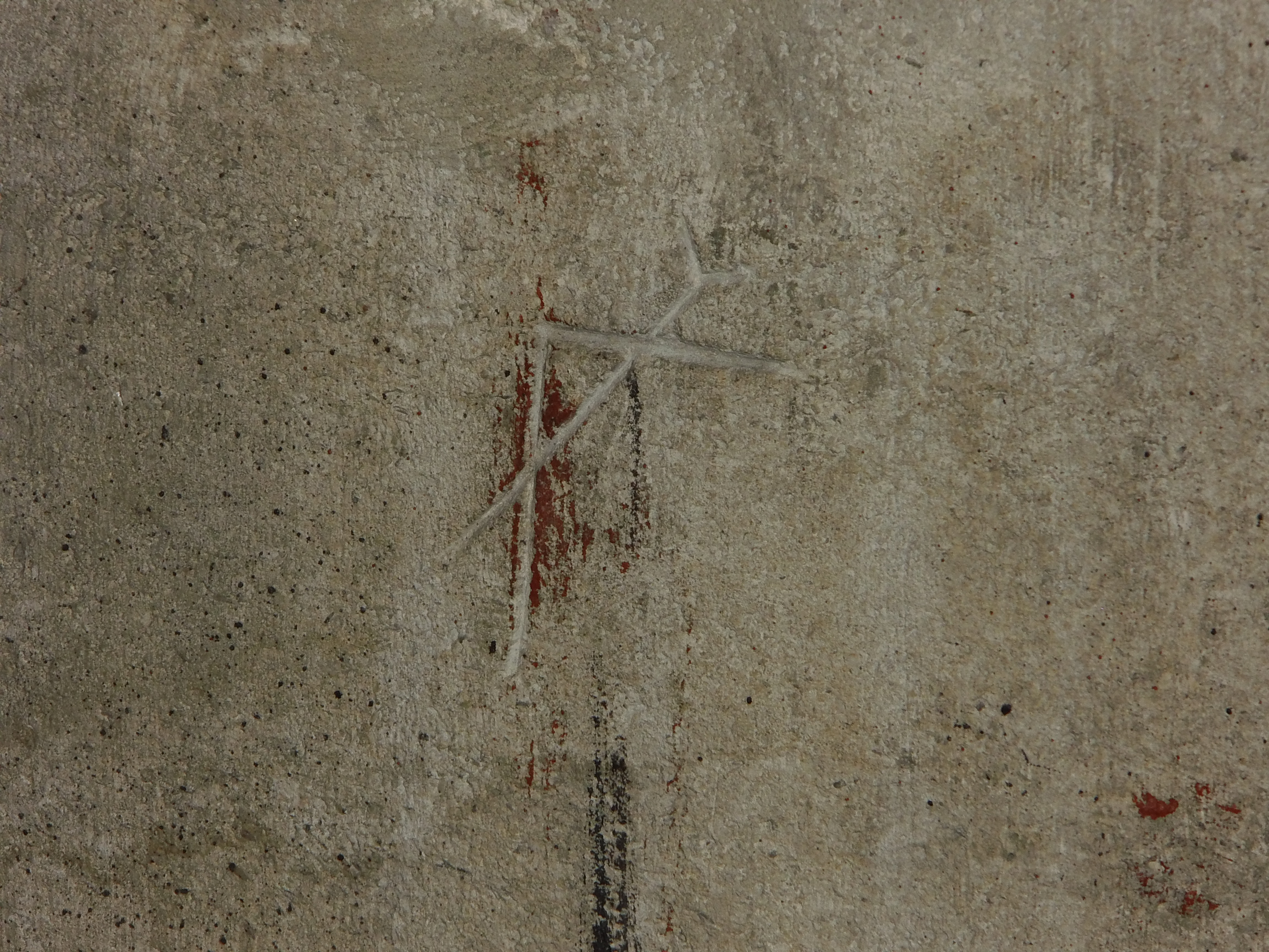 Mason's mark at a pulpit